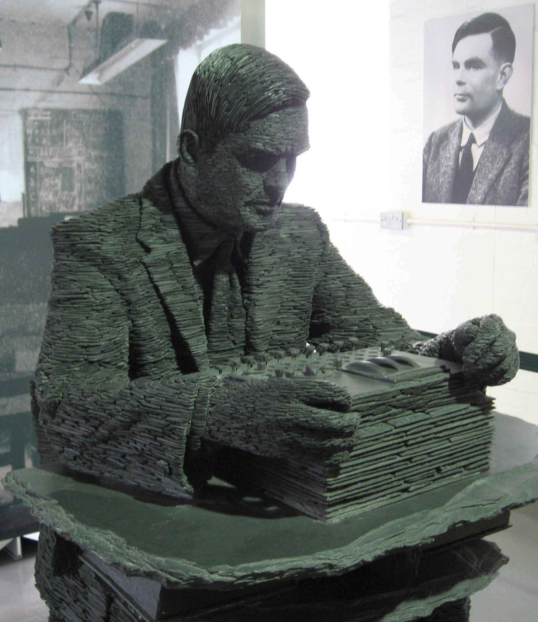 Turing in slate at Bletchley Park. People who knew him say this takes their breath away. Unfortunately, you can't see his coffee cup under his desk.